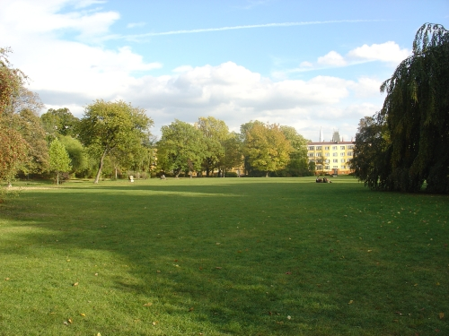 A park in Kadan. My own work.